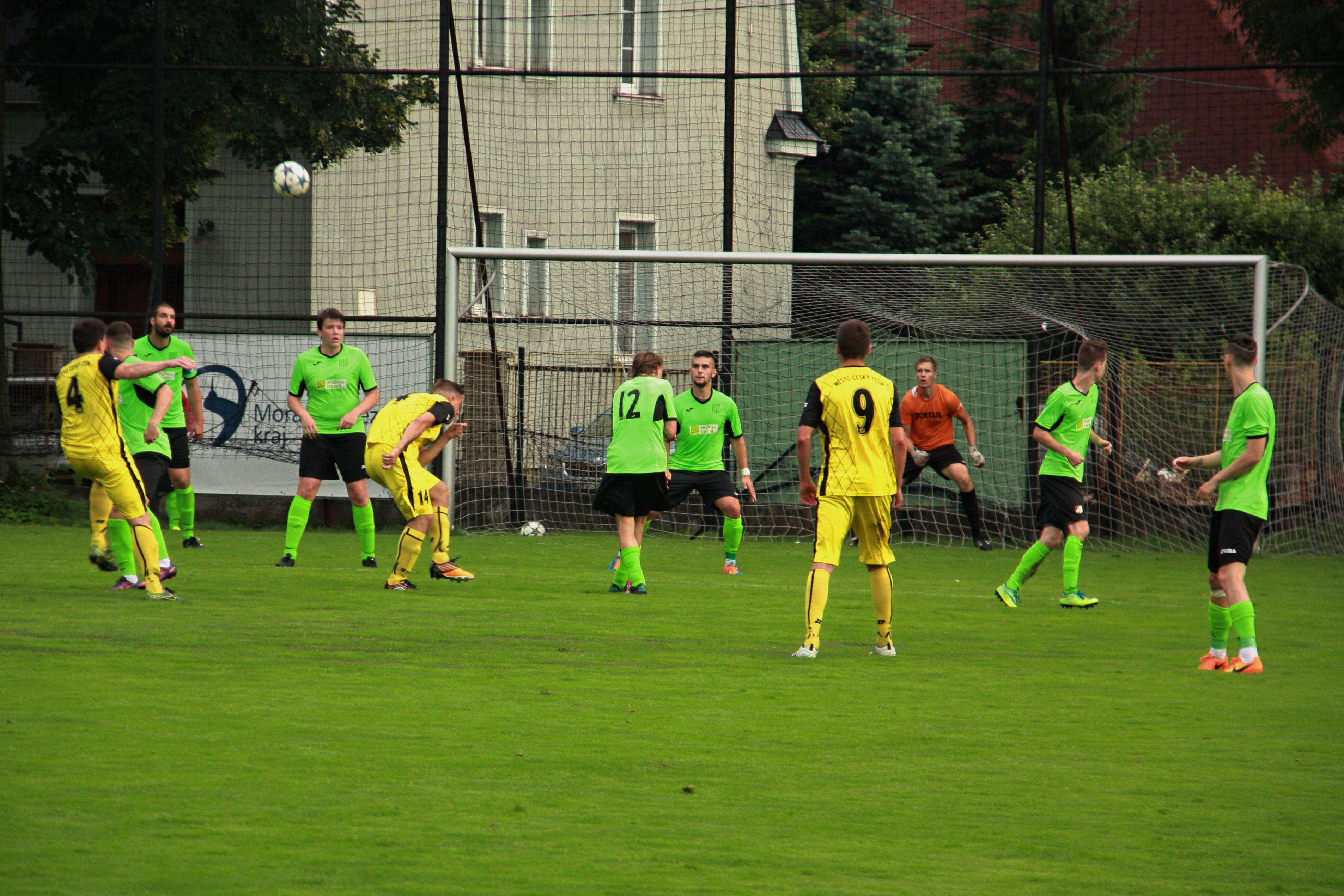 A football match between FK Český Těšín and FK SK Polanka nad Odrou on June 16 2018